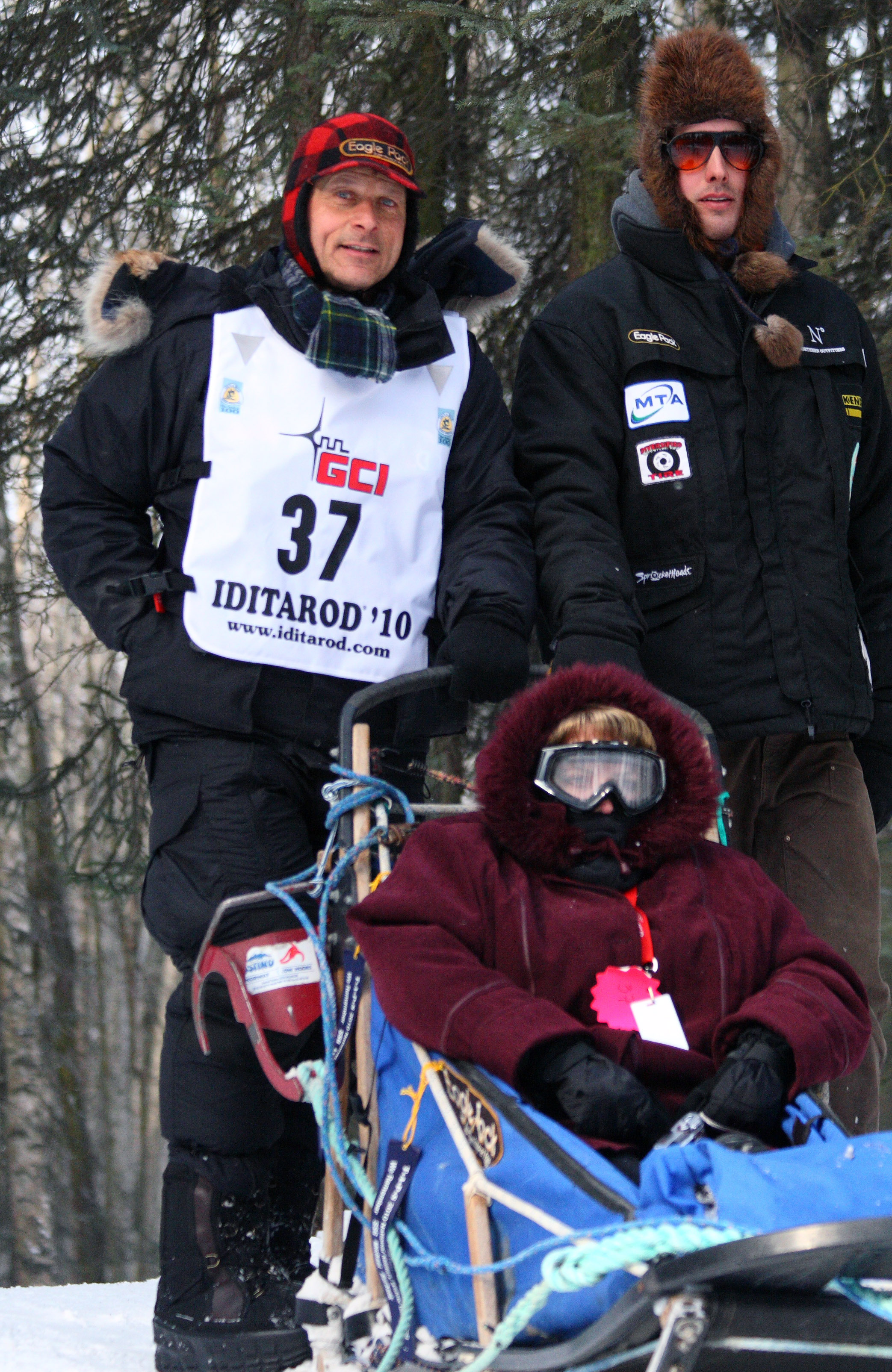 I took these photos on 6 March 2010 at the ceremonial start of the Iditarod dog sled race. The real start is from Willow. The Iditarod is known as "the last great race". It goes 1,100 miles from Willow to Nome through unforgiving terrain and downright nasty weather. I took these photos between Goose Lake and APU. What a great day to be an Alaskan!